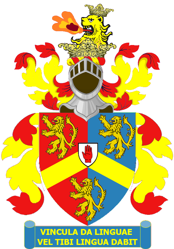 The armorial achievement of the Hoskyns baronets of Harewood